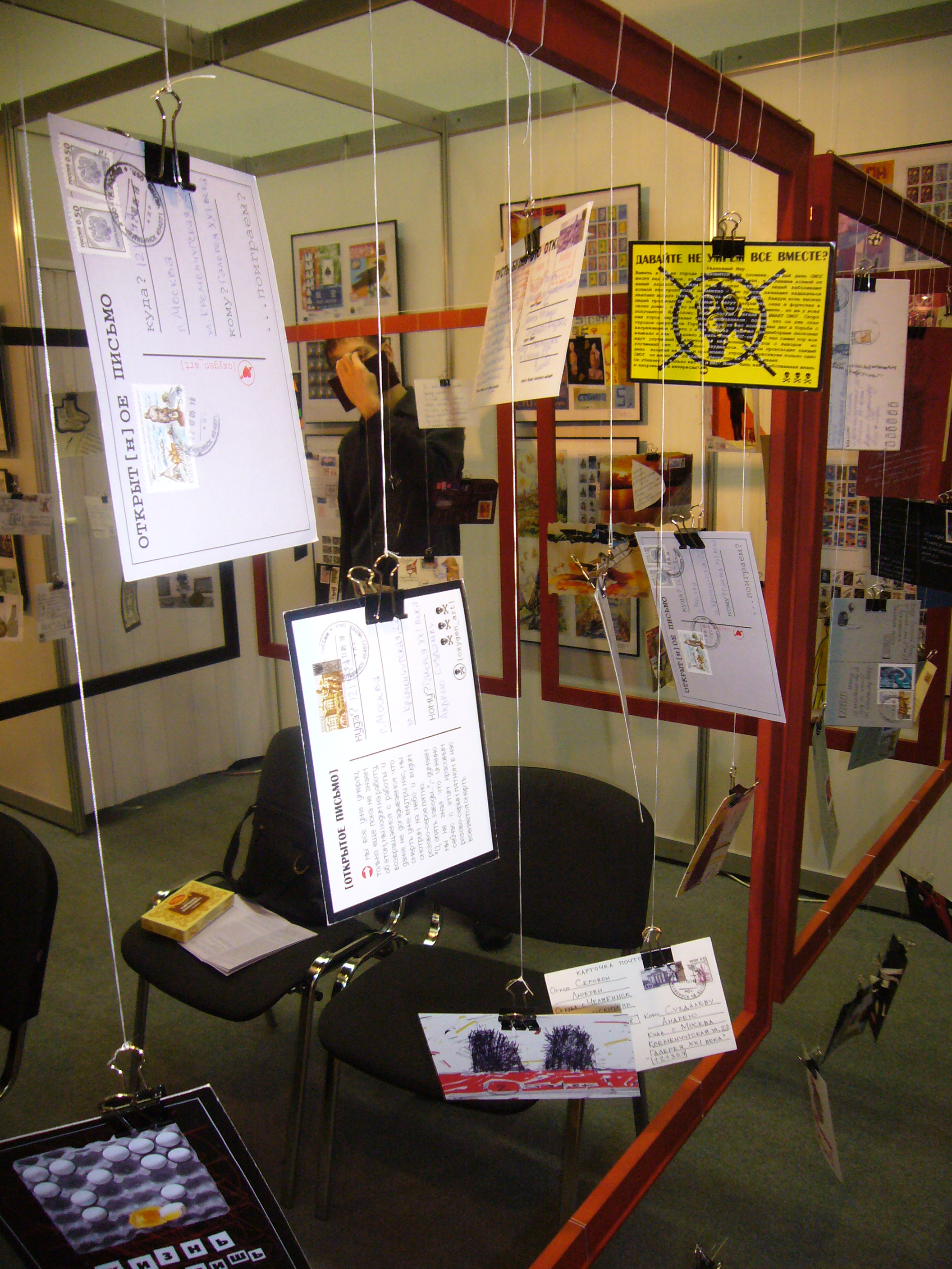 Postcards exhibition PostCardExpo 2008, January 24-27, 2008, Moscow. At mail art stand of 21st Century Gallery.